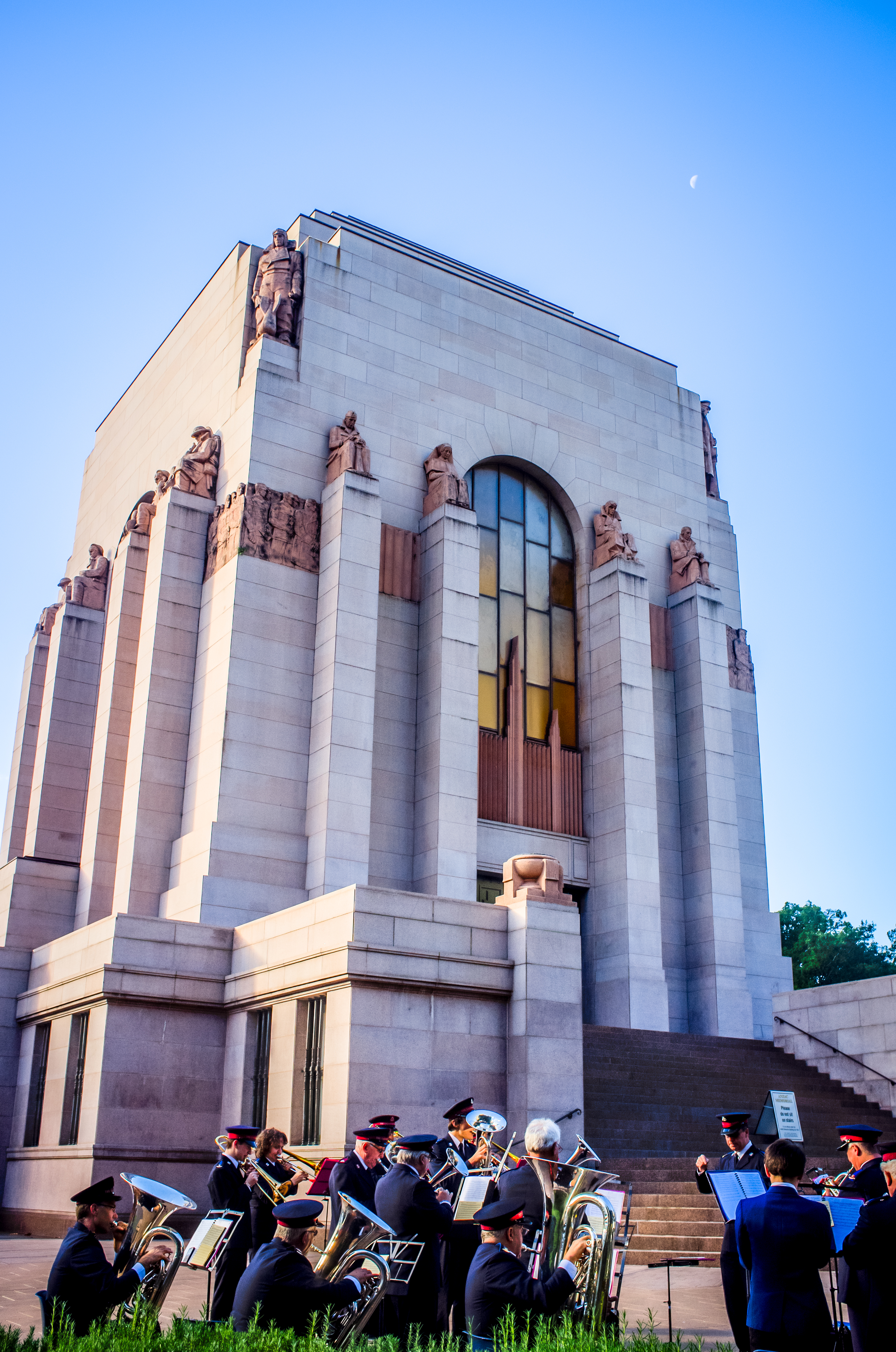 ANZAC War Memorial